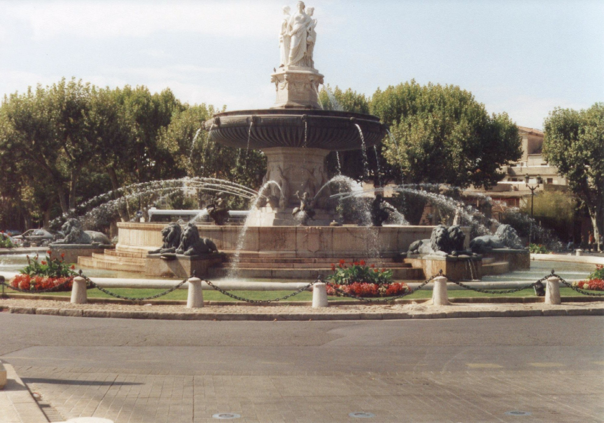 The "Place de la Rotonde" with fountain in Aix-en-Provence, France.